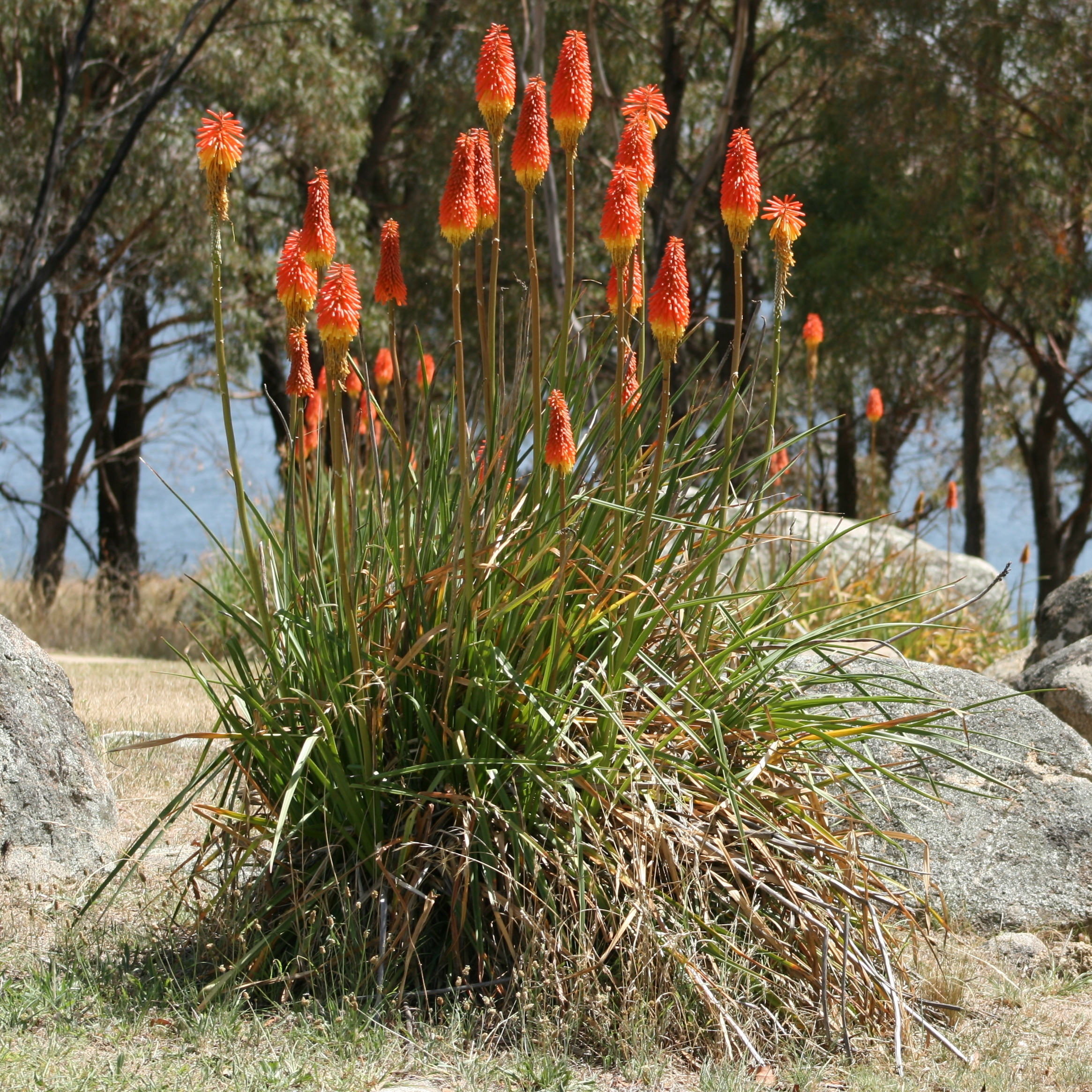 Red-hot poker plants (Kniphofia uvaria) on the shore of Lake Jindabyne, New South Wales, Australia.